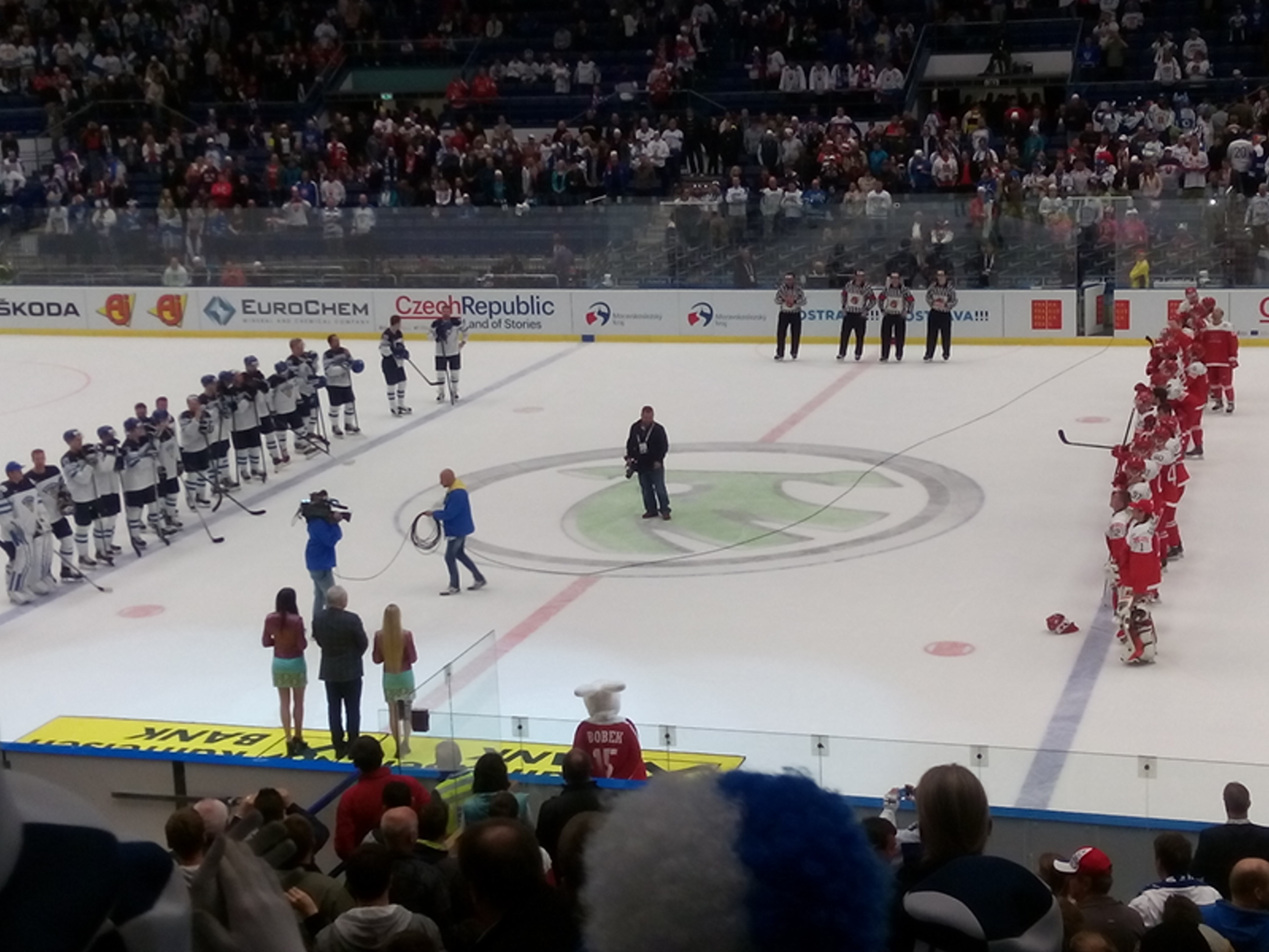 en:2015 IIHF World Championship in Ostrava – final ceremony after the match preliminary round between Denmark and Finland